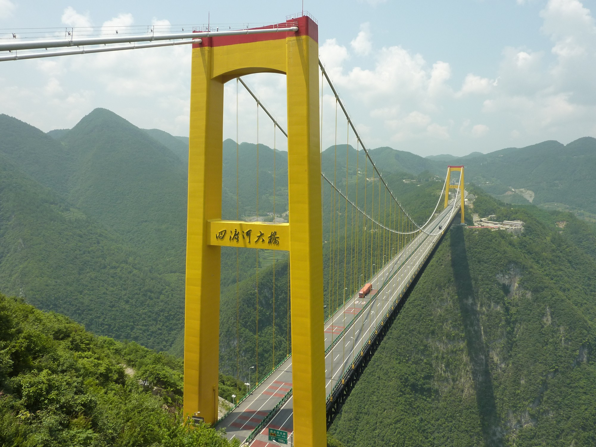 The Si Du River Bridge (Siduhe Bridge, 四渡河特大桥) is a 4,010 foot (1,222 m) long suspension bridge crossing the valley of the Si Du River near Yesanguan in Badong County of the Hubei Province of the People's Republic of China.